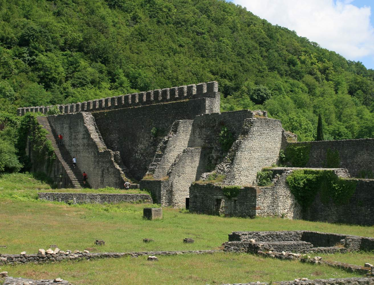 Ruins of Nokalakevi, Georgia